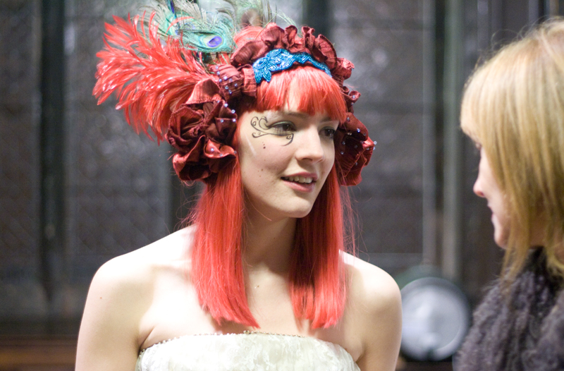 Gabby Young (left), Front Singer from Gabby Young and other animals